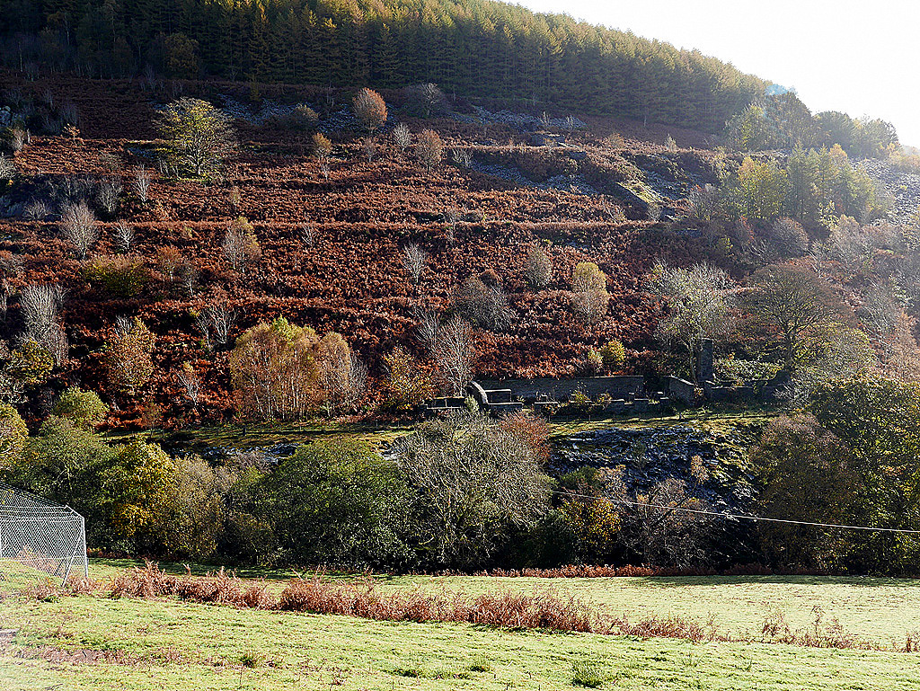 The remains of Abercwmeiddaw quarry in 2018, showing the partly dismantled mill and the trackbed of the original quarry incline